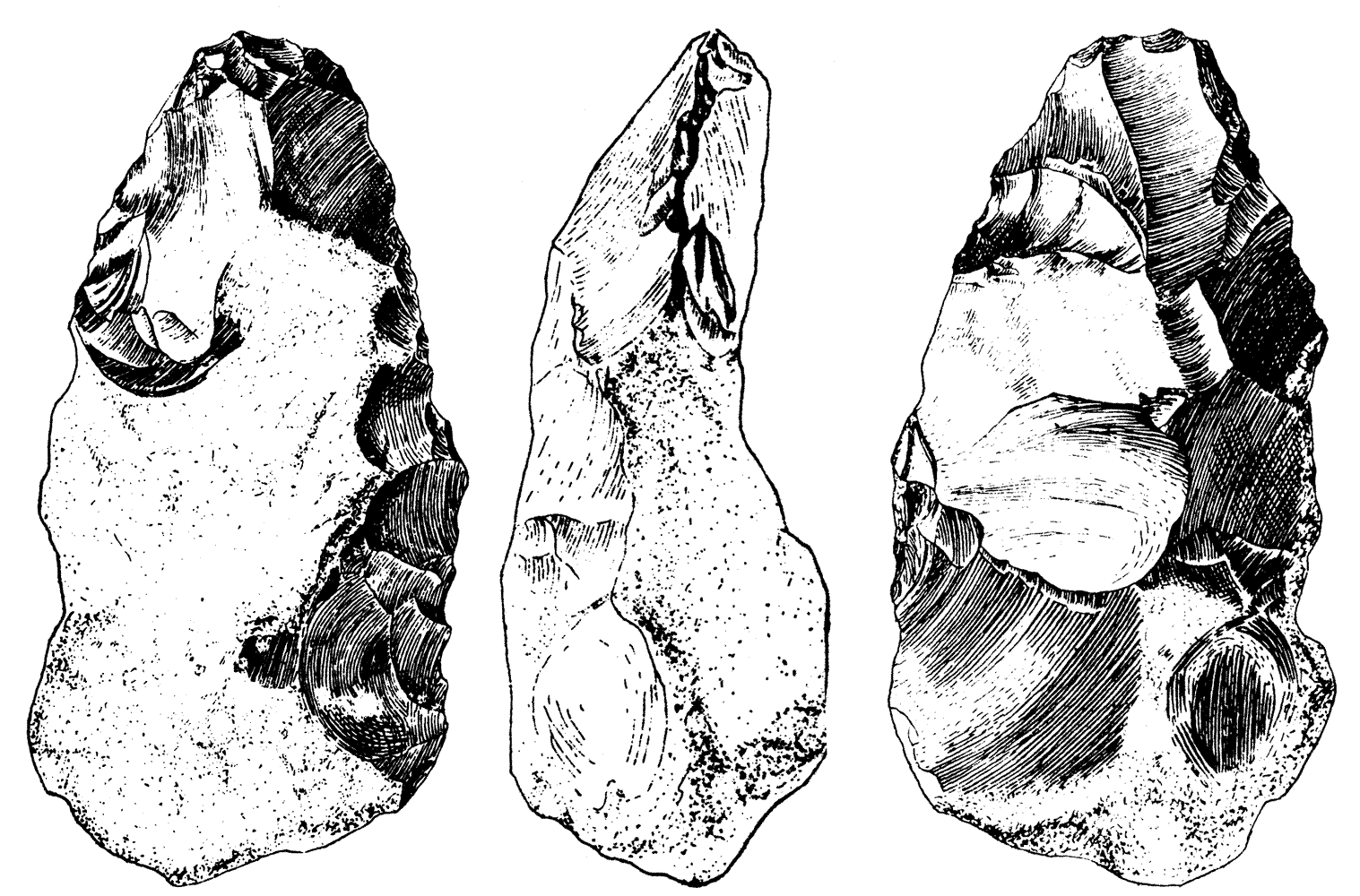 Abbevillian-style hand axe from the acheulean site of San Isidro, Madrid, Spain